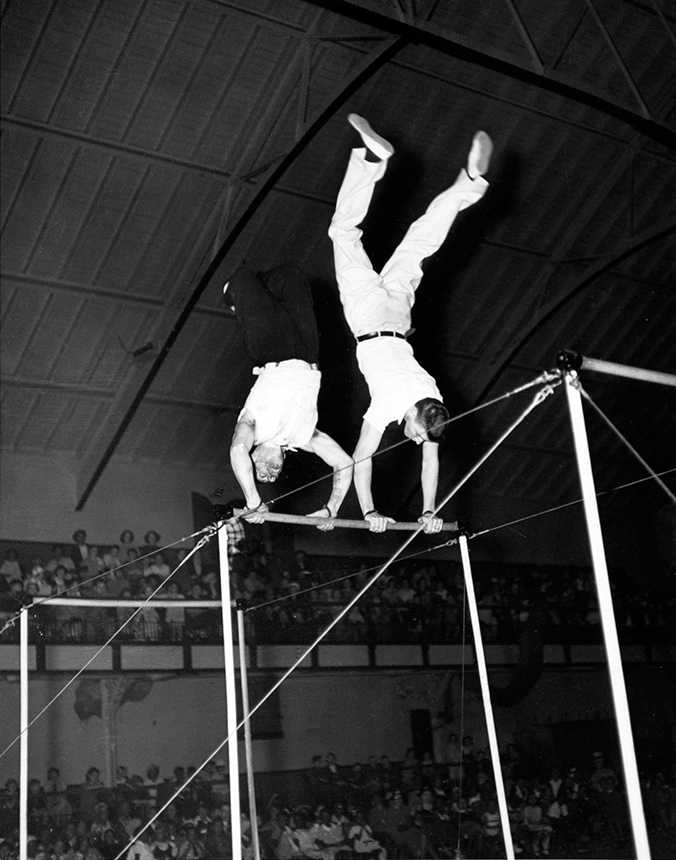 Photograph of Nick Cravat and Burt Lancaster, performing on the horizontal bars as Lang & Cravat with the Federal Theatre Project Circus